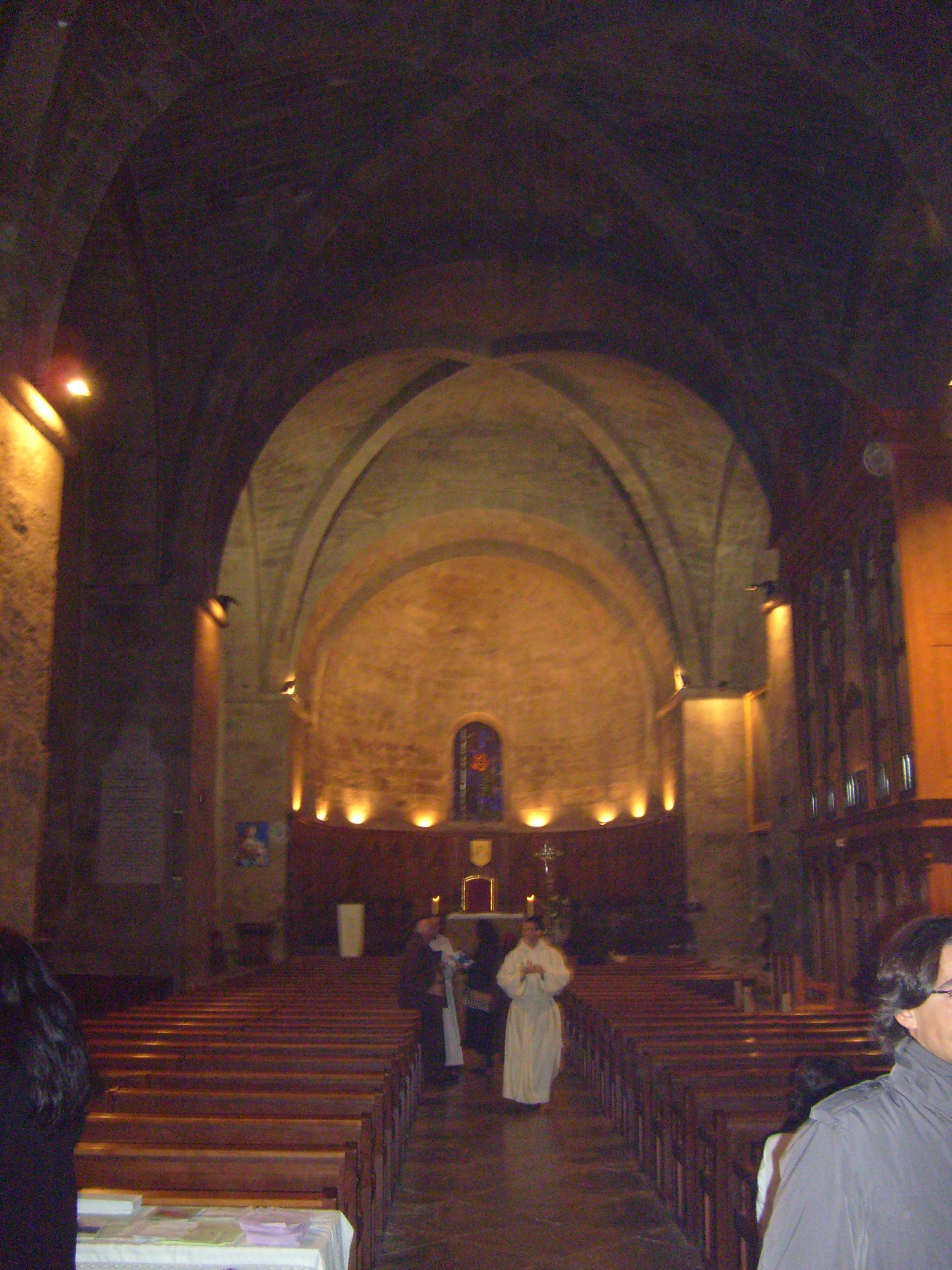 Nave of Frejus Cathedral (12th Century)